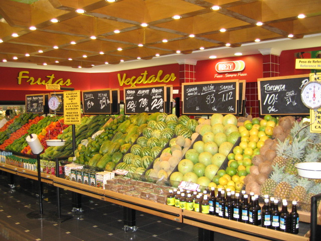 A grocery store in David, Panama